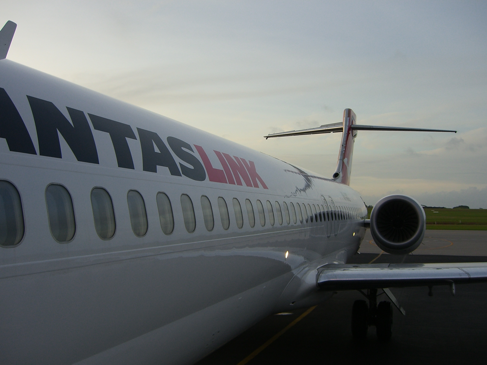 A QantasLink Boeing 717-200 at Darwin International Airport